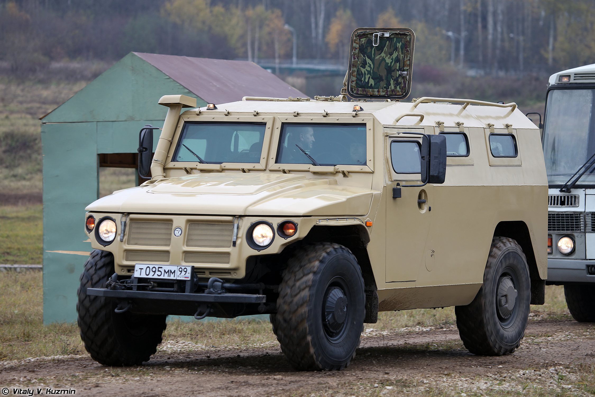 ГАЗ-233034 Тигр СПМ-1 (GAZ-233034 Tigr SPM-1 armored vehicle)